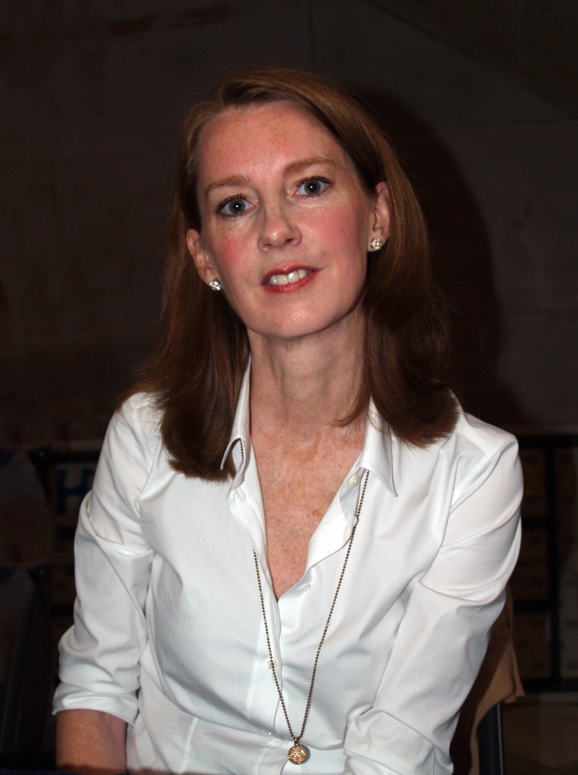 Author/blogger/speaker Gretchen Rubin at the 2014 Brooklyn Book Festival. This photo was created by Luigi Novi. It is not in the public domain, and use of this file outside of the licensing terms is a copyright violation.